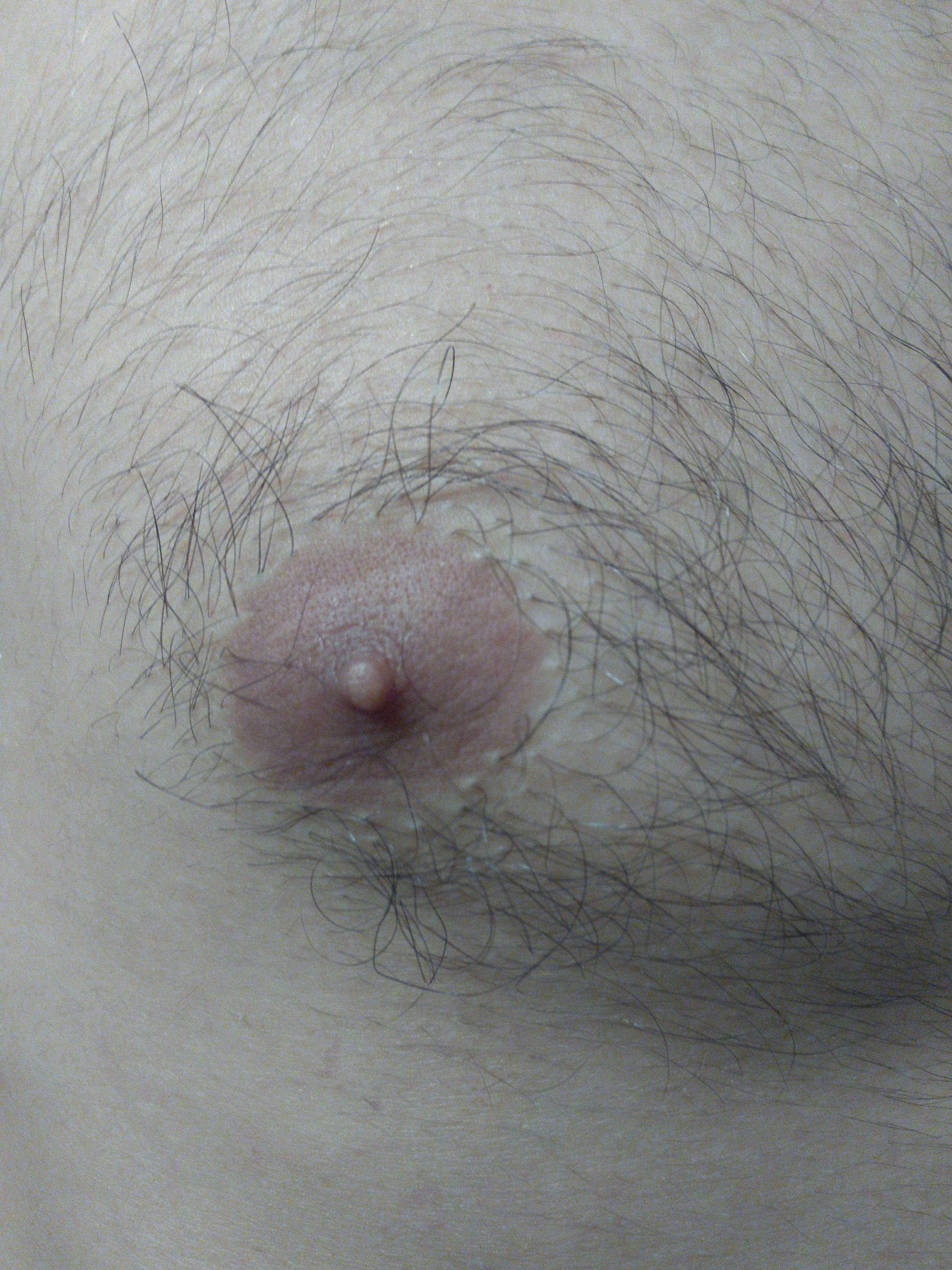 Adult male areola